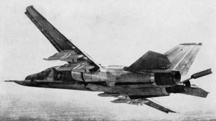 A U.S. Air Force General Dynamics F-111A prototype with dummy missiles during armament tests at Edwards Air Force Base, California (USA), in 1965. The U.S. Navy F-111B variant should later have been equipped with four similar AIM-54 Phoenix missiles, but the program was cancelled.